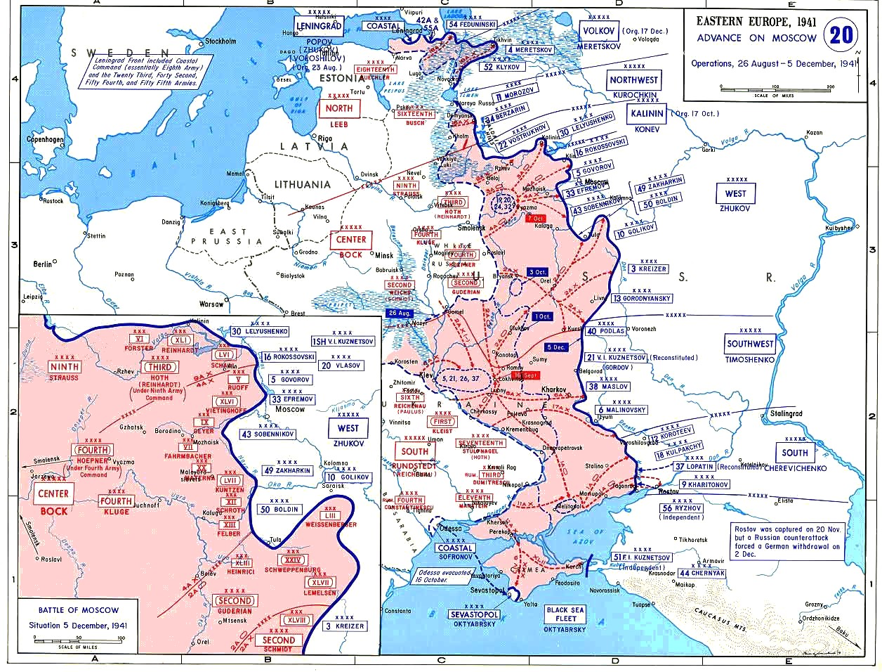 PD as it is work of USGOV. From [1]